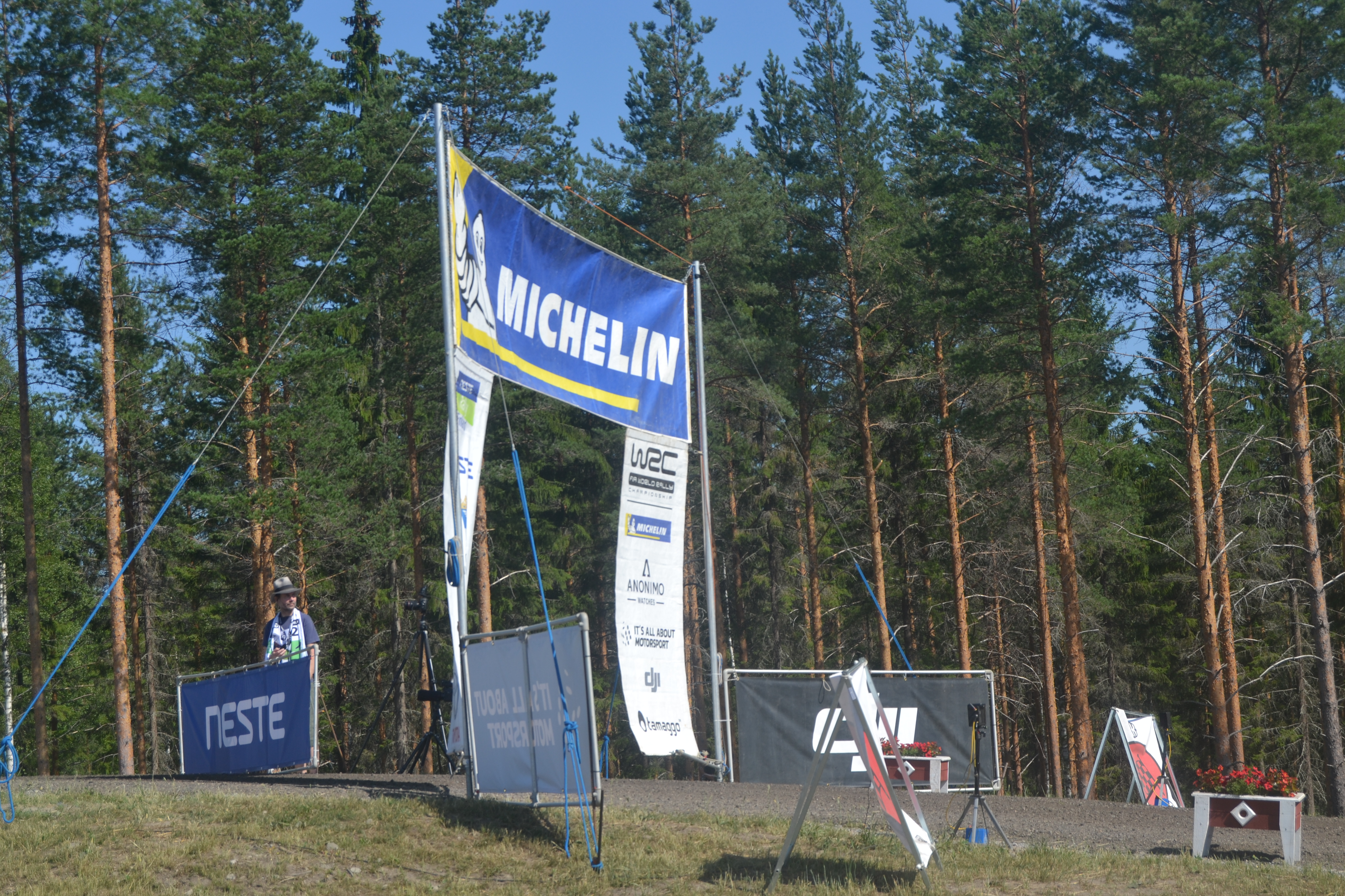 Finish line of Ruuhimäki stage at Rally Finland 2018